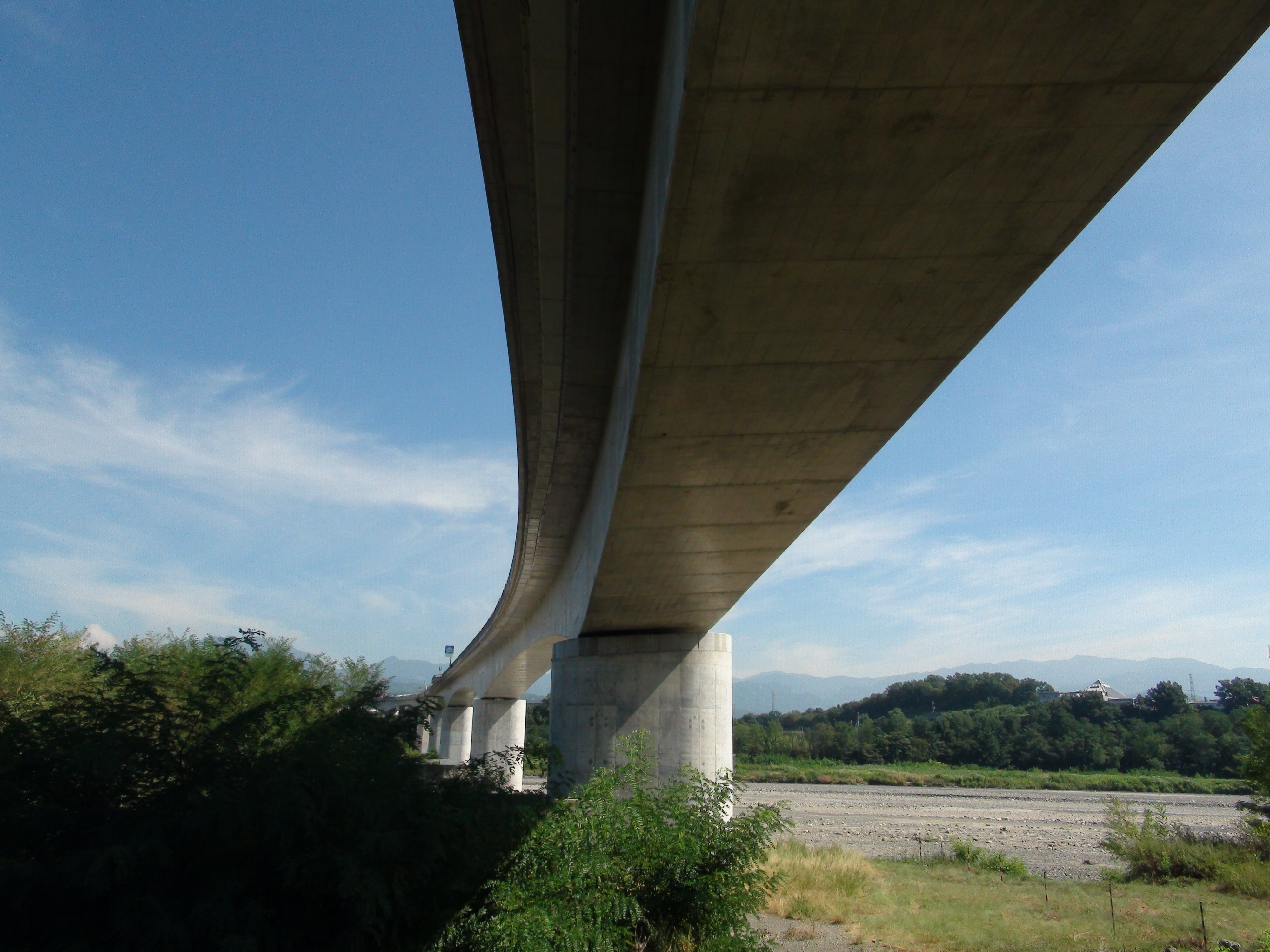 Kamanashi-gawa bridge Chubu Odan Expressway